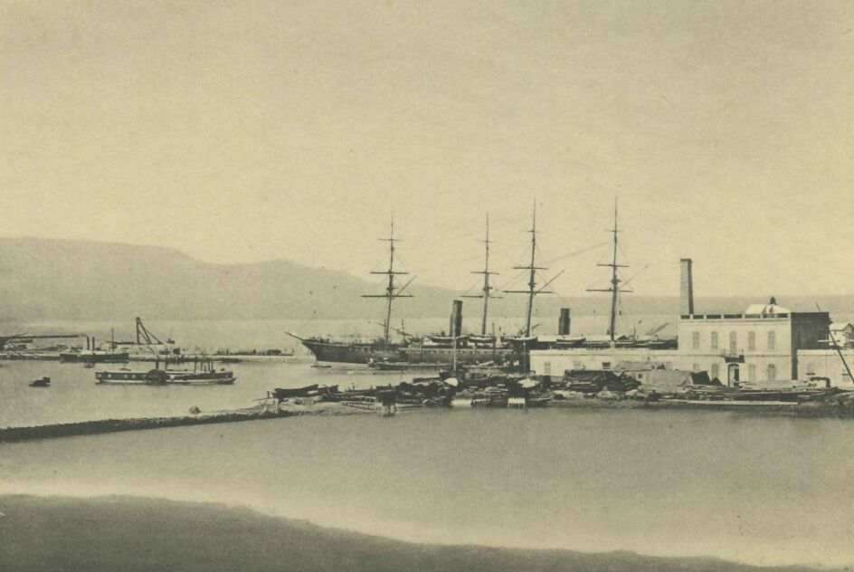 The City of Damietta on the Nile